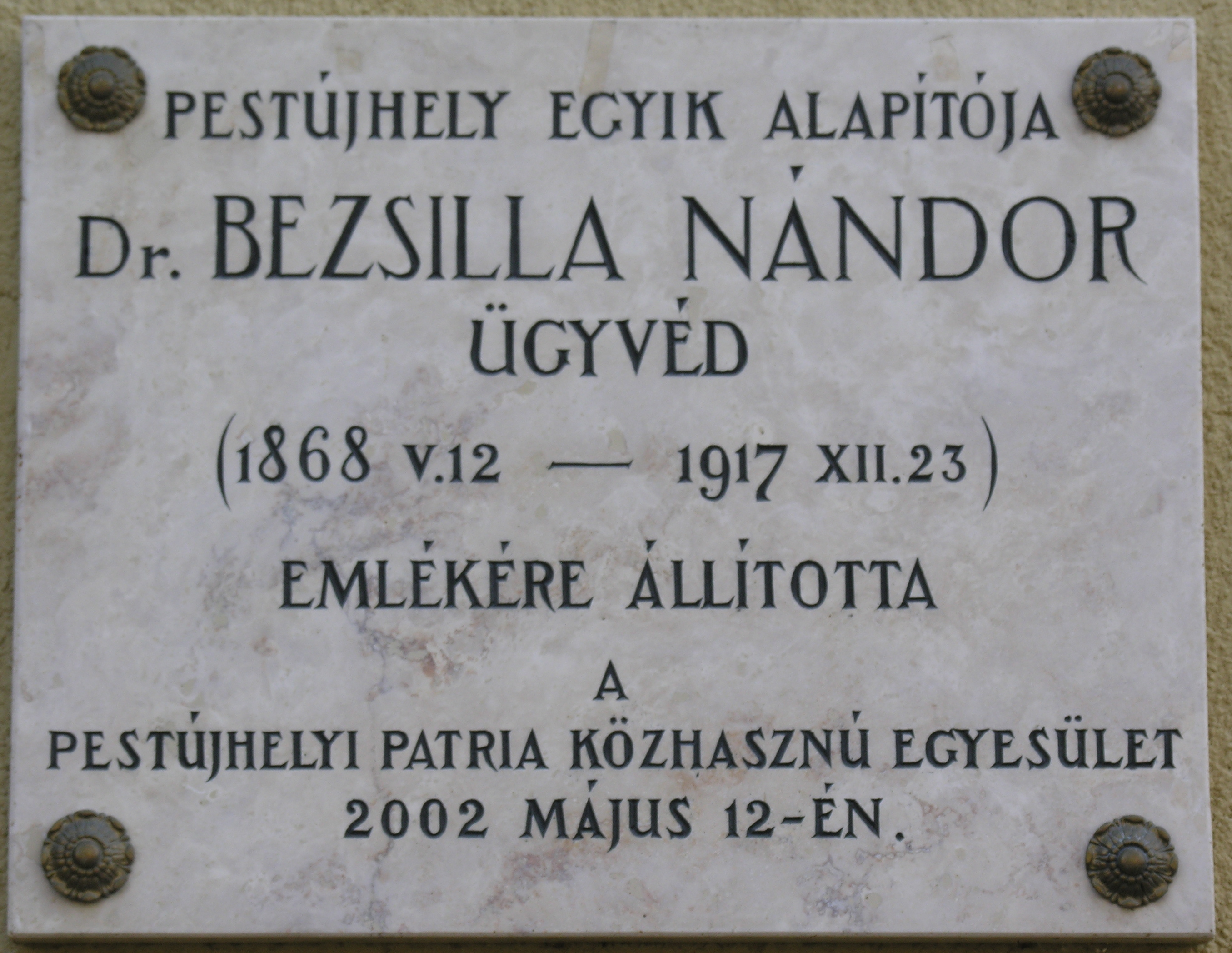 Commemorative plaque of Nándor Bezsilla, Budapest District XV, Pestújhelyi Street No 38